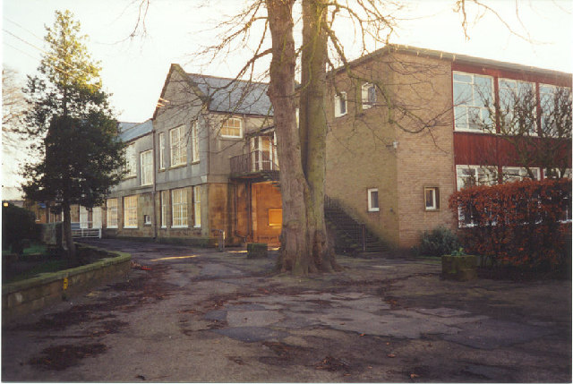 The Friends School, Great Ayton in North Yorkshire